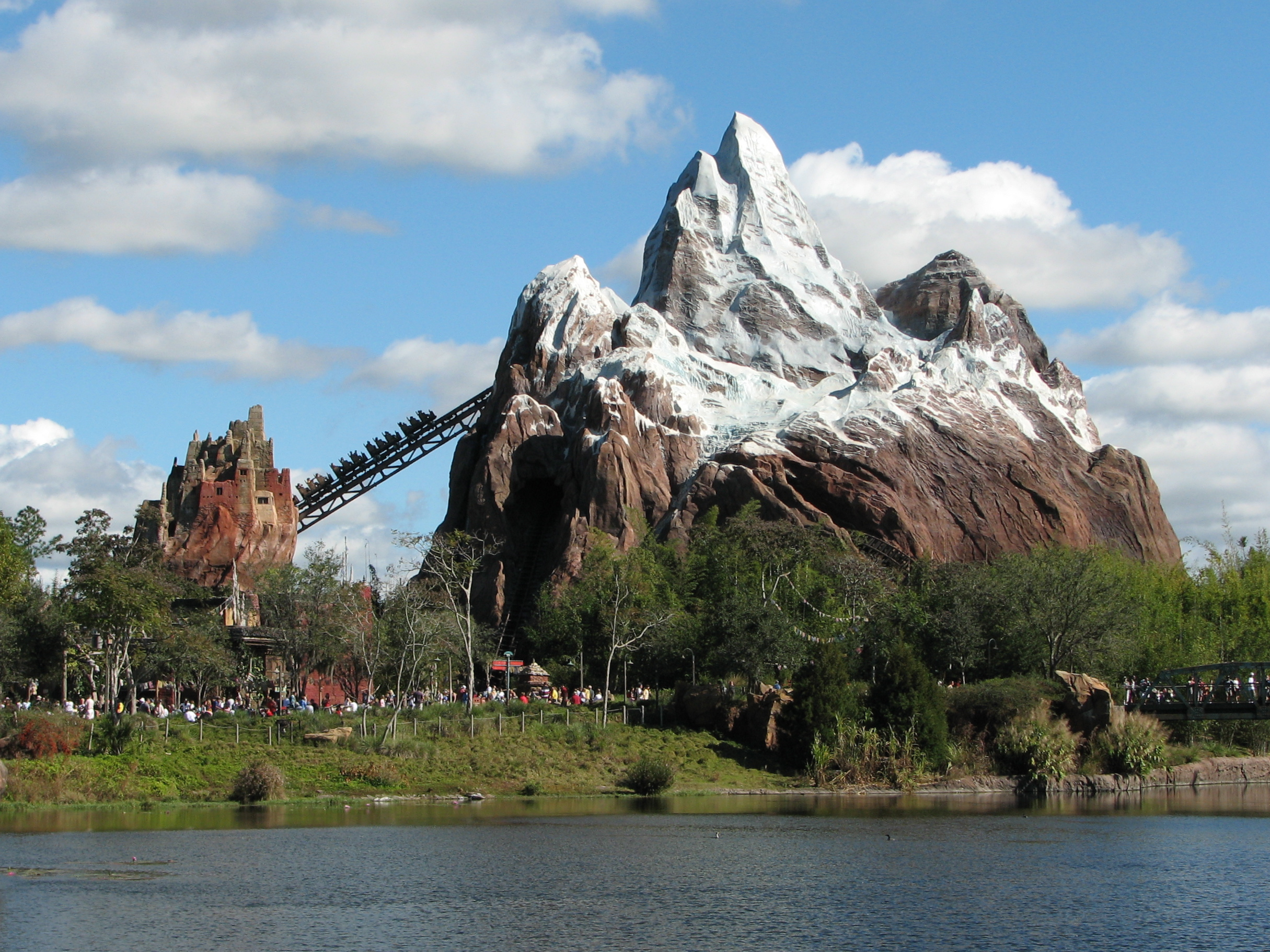 The Expedition Everest roller coaster attraction at Disney's Animal Kingdom theme park in Florida. In this photo, a train is heading up the first ramp.